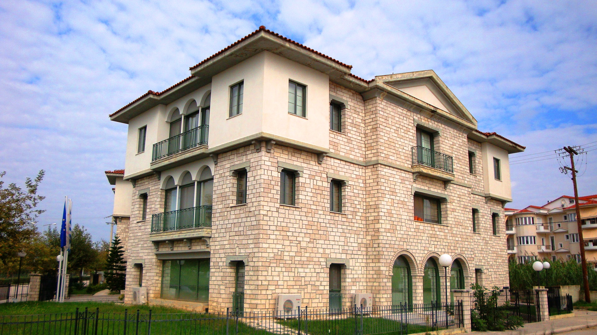 Technological Educational Institute of Epirus in Arta